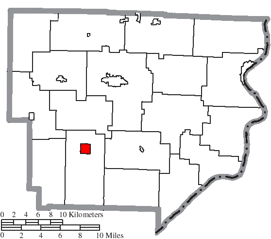 Map of the municipal and township boundaries of Monroe County, Ohio, United States, as of the 2000 census, with the location of the village of Graysville highlighted. Township borders are shown only in unincorporated areas in order to differentiate incorporated and unincorporated areas more clearly.